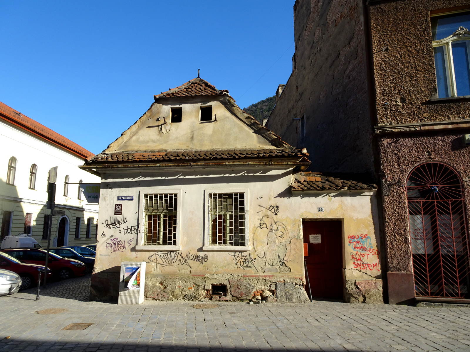 House on Postăvarului street in Brașov; house number 66